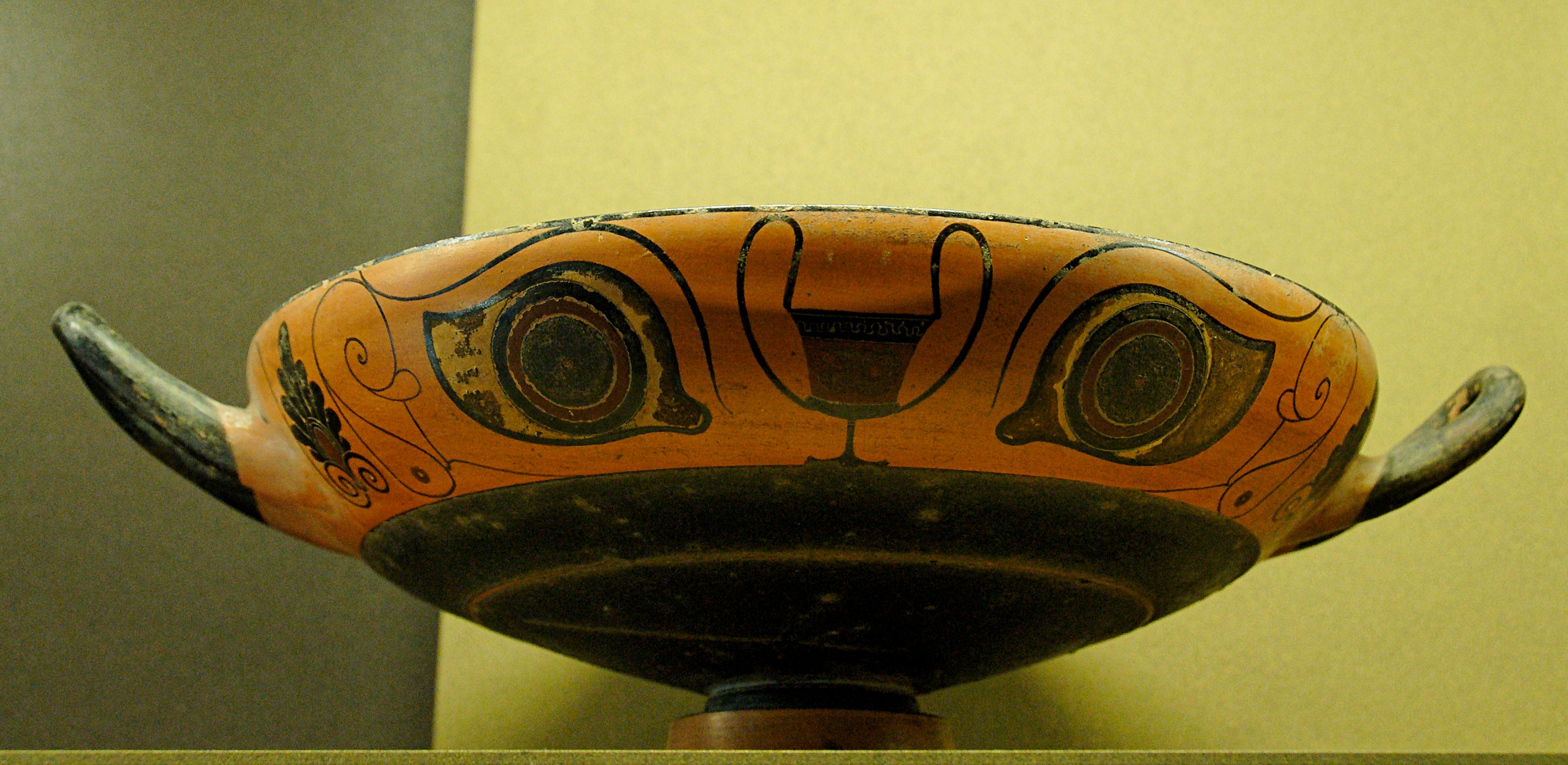 Chalcidian black-figure eye-cup, ca. 530 BC. From Reggio di Calabria (former Rhegion).